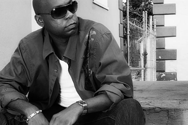 Photograph of Singer, Songwriter, Producer Sadiki